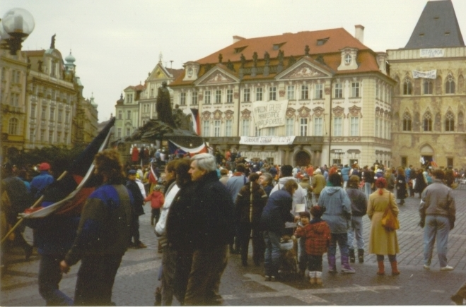 A gathering in Stare Mesto in November 1989